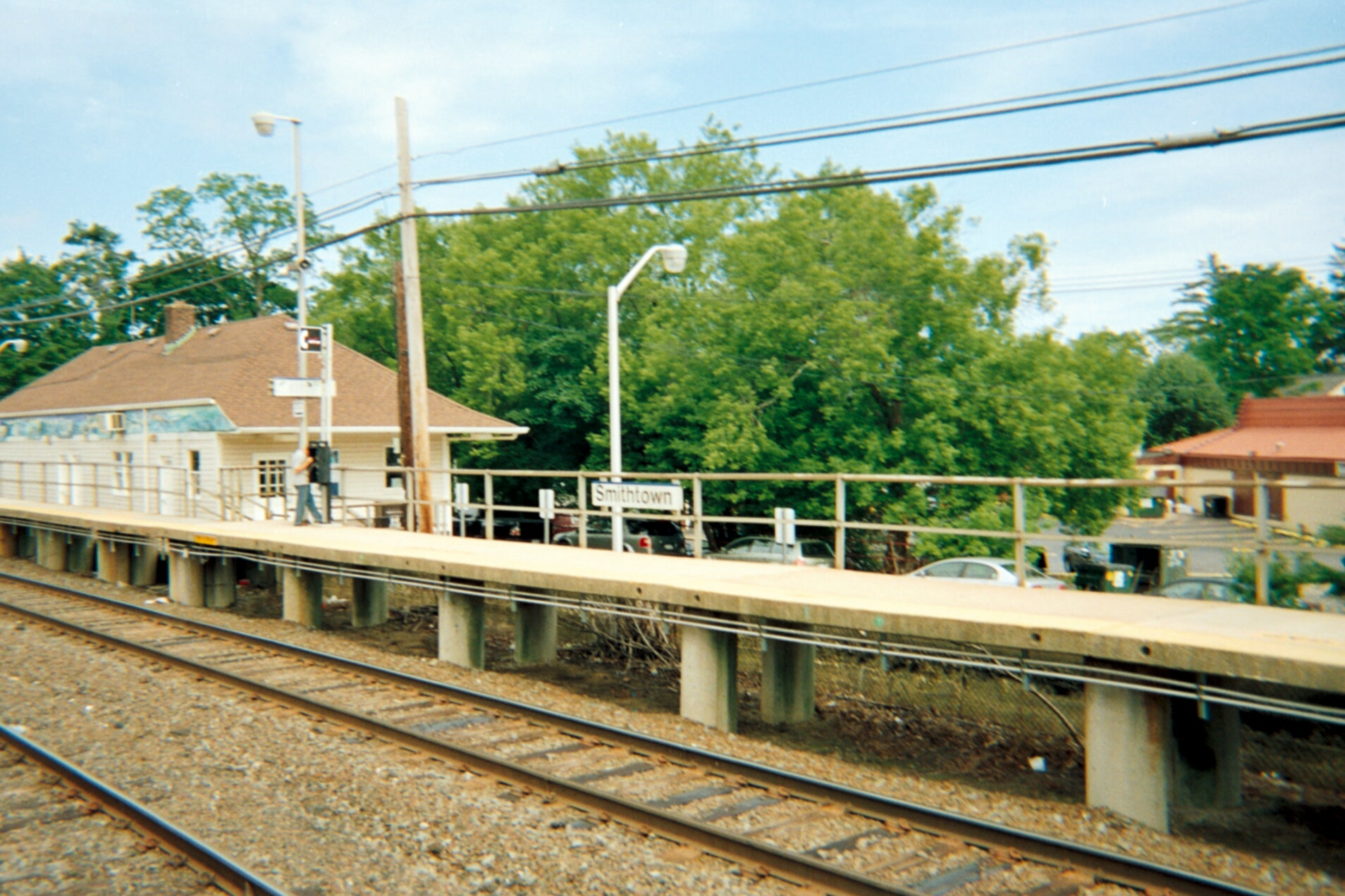 View of the Eastbound Smithtown (LIRR station) in the Village of Smithtown, New York. The platform closest to the station house is actually for New York City-bound trains, while Port Jefferson-bound trains are on the side of the photographer. Most stations with two tracks have NYC-bound tracks on the north side.